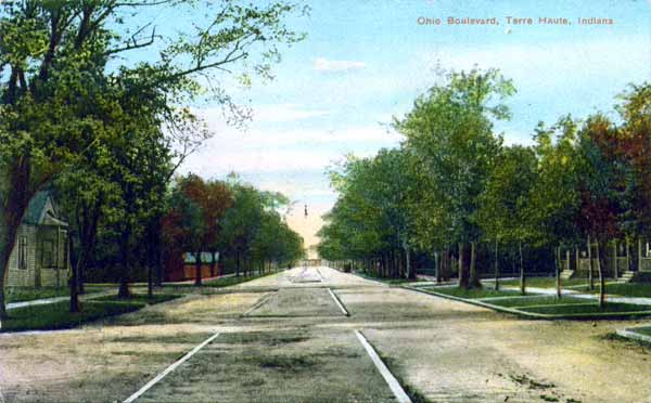 A view of Ohio Boulevard in Terre Haute, Indiana. Now part of the Ohio Boulevard-Deming Park Historic District. Postcard printed by ANC NY Lithochrome Leipzig - Berlin. Published by Indiana News Company of Indianapolis.